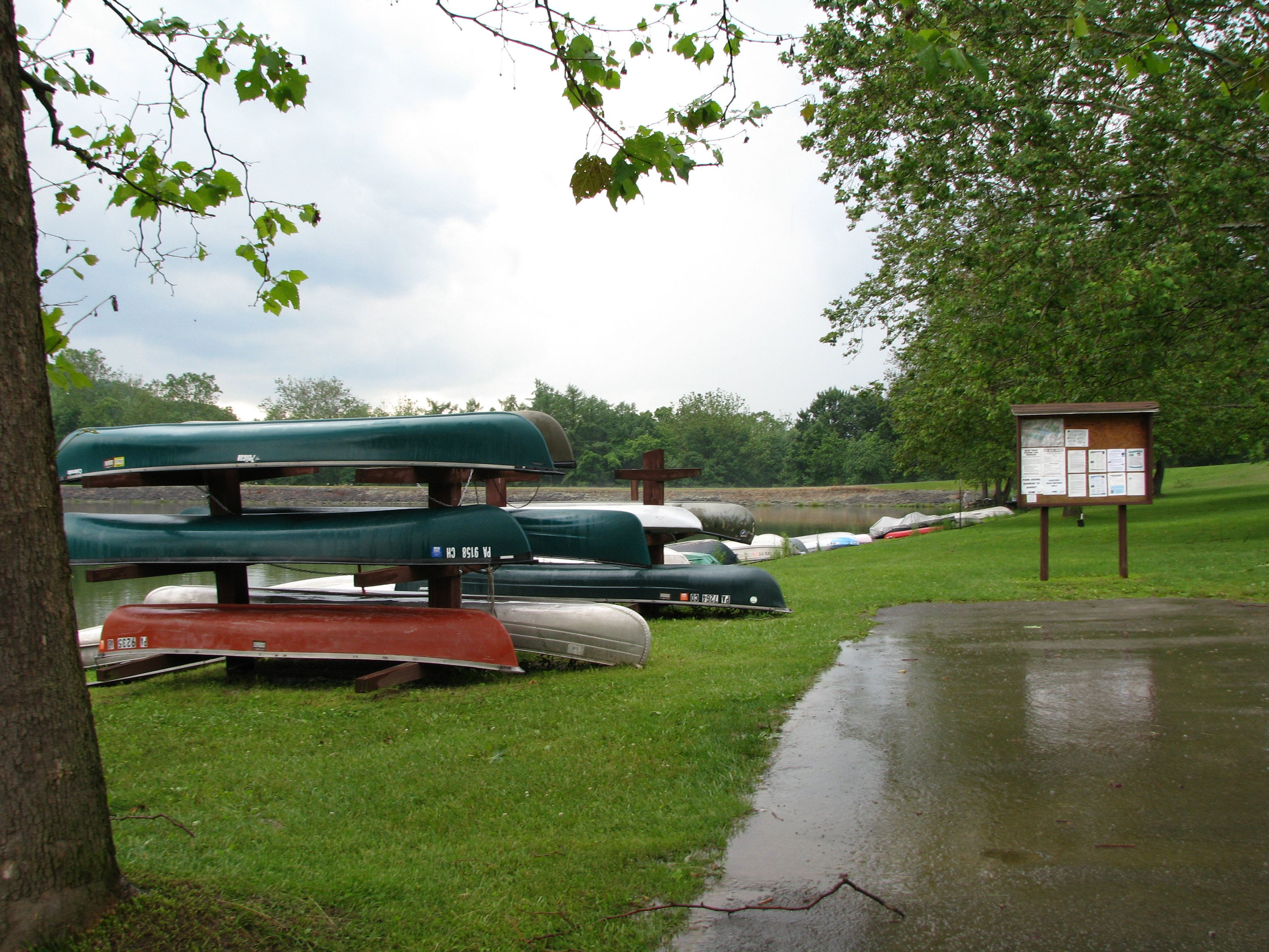 Canoes at Keystone State Park